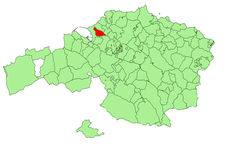 Berango municipality in the province of Biscay